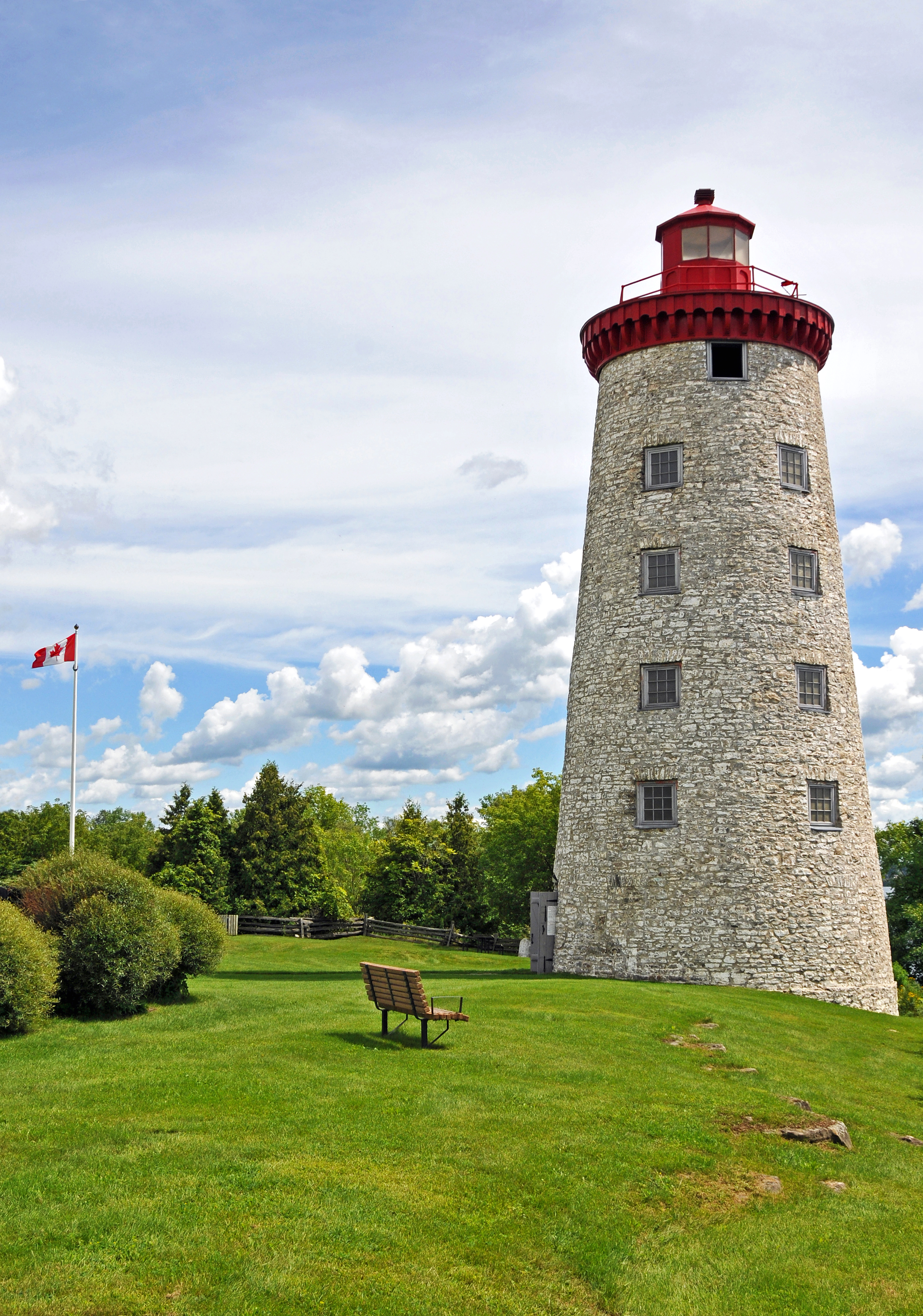 Site of the Battle of the Windmill. After the 1837 Rebellions many rebels fled to the United States where a few joined American sympathizers in a new attempt to overthrow British rule in Canada. On 12 November 1838 they landed 190 men here and seized this windmill and nearby buildings. The local people remained loyal, reporting to their militia units; in a few days 2,000 militia and regulars, supported by naval vessels, besieged the mill. Although British guns did little damage to the mill, the insurgents, seeing no escape, surrended on the 16th. Eleven were later executed and 60 exiled to Australia. 3 km east of Prescott, Ontario, Canada This really was built as a windmill, and it was rebuilt as a lighthouse in 1846 and served until 1965.